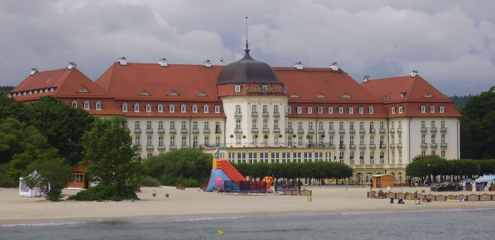 Grand Hotel w Sopocie